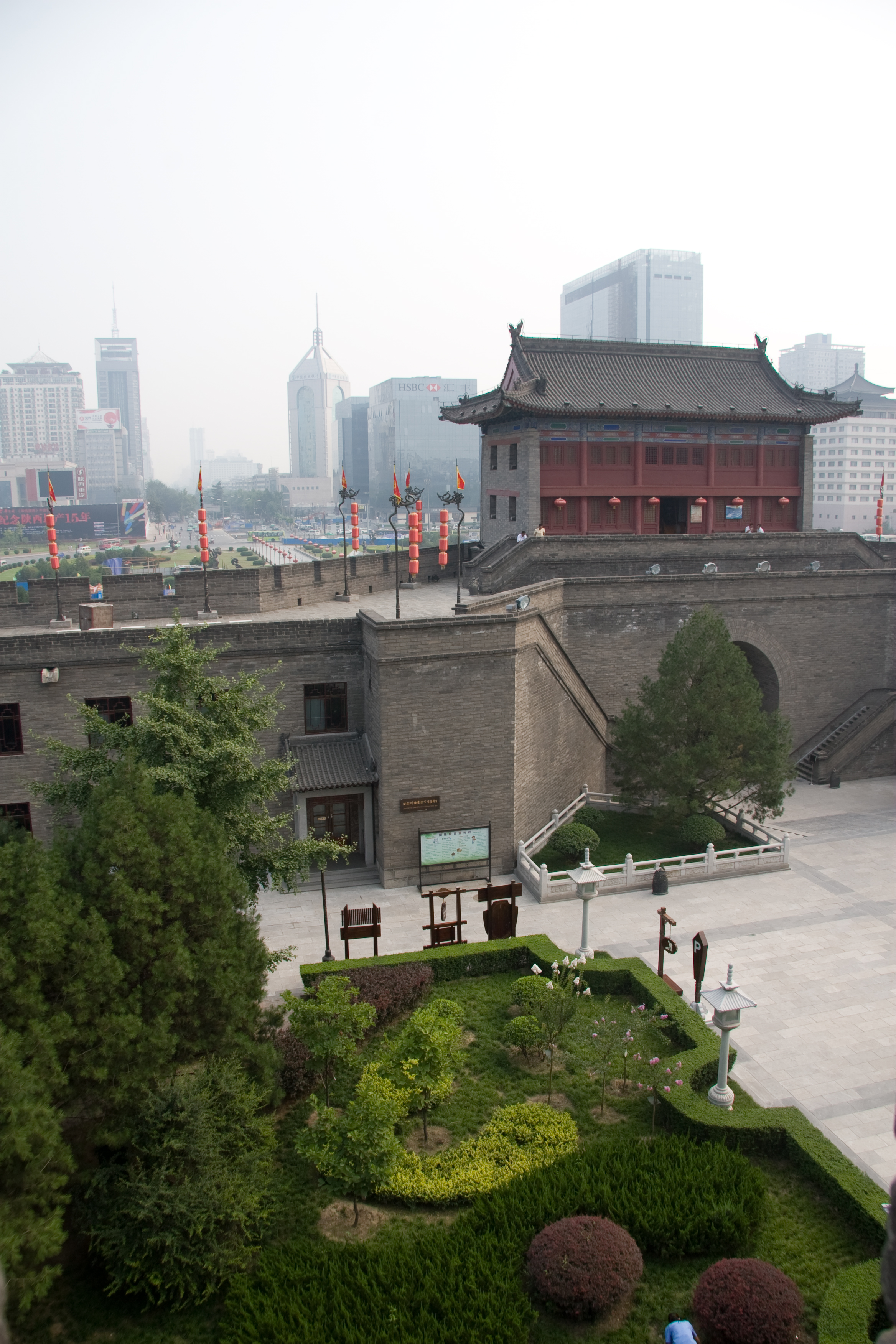 City Wall in Xi'an, China